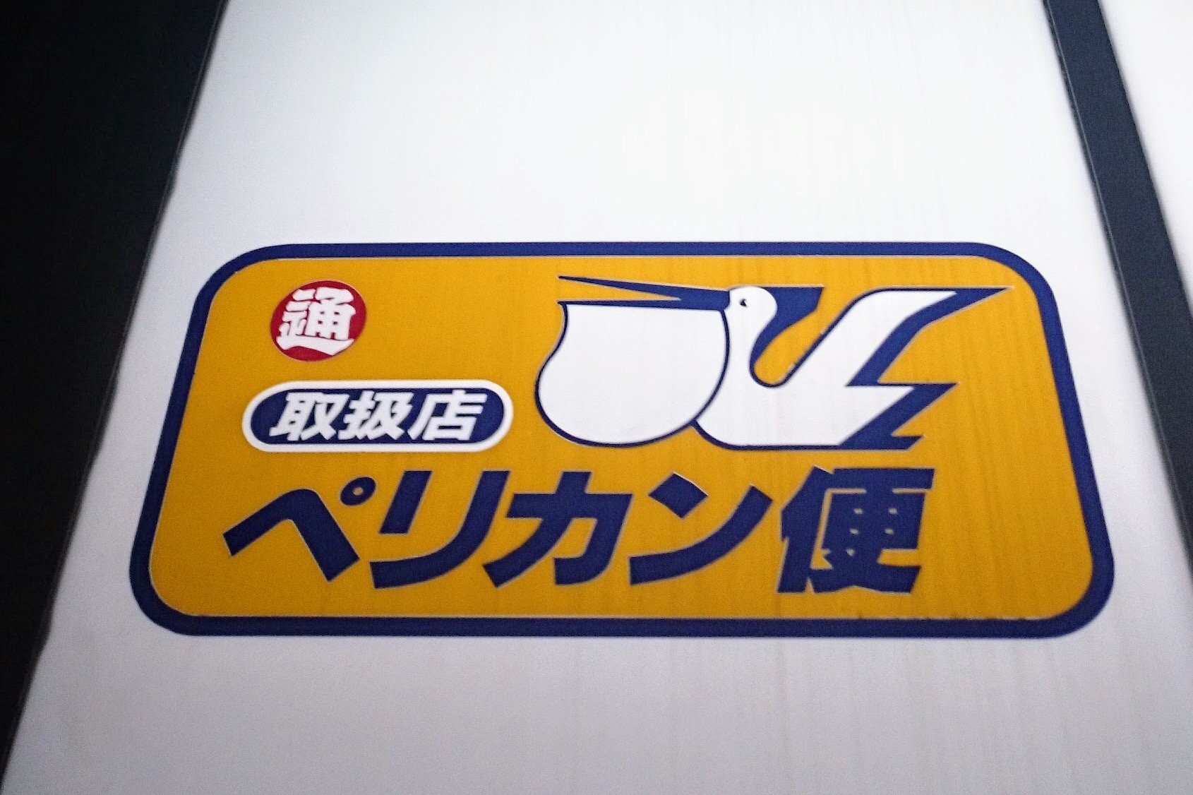 Pelican-Delivery(Nippon Express)'s sign